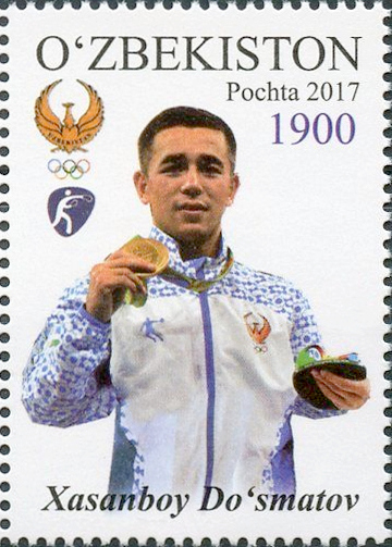 Uzbekistan 2017 MNH Rio 2016 Champions Medal Winners 2v Set Olympics Stamps